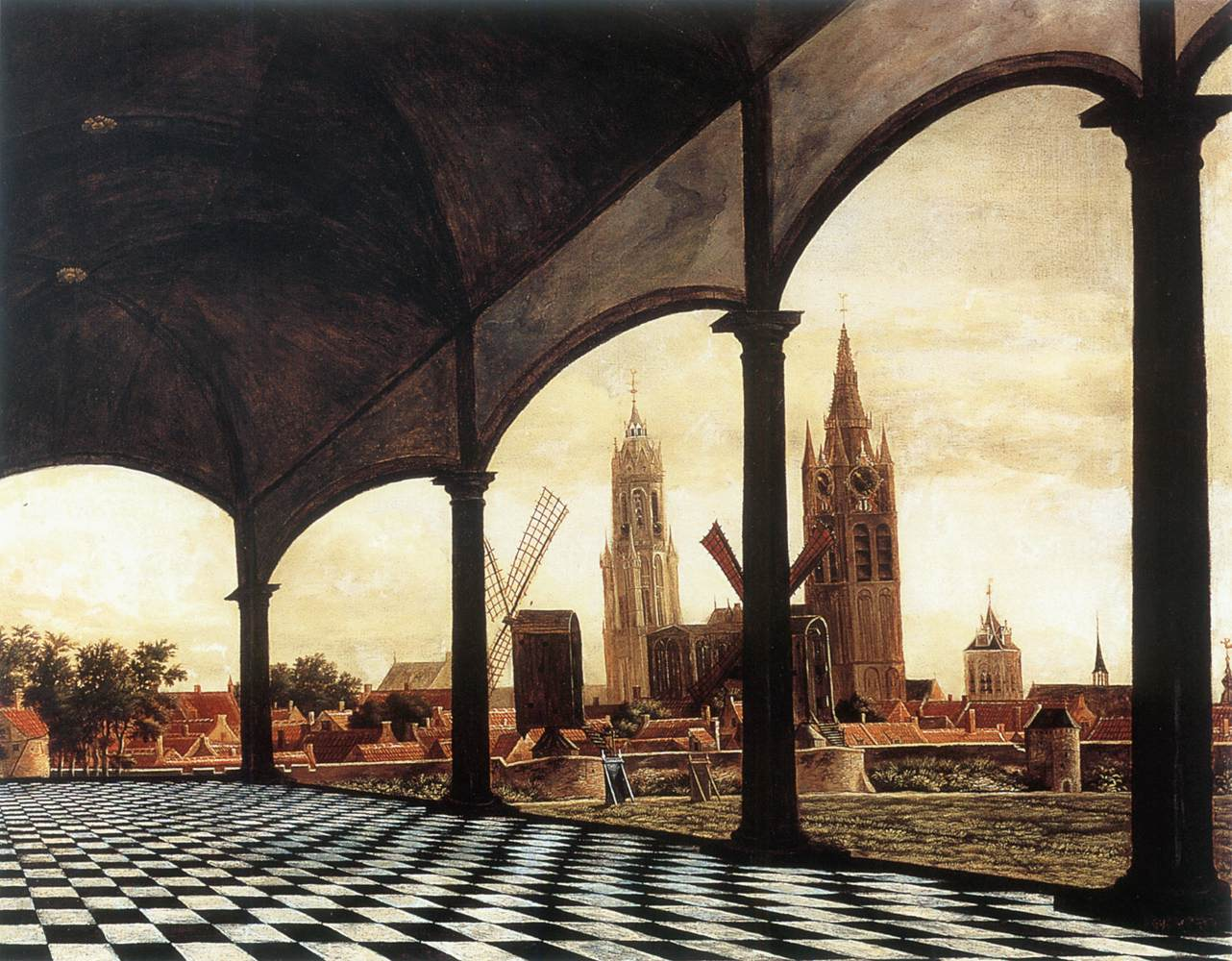 In the foreground an imaginary Loggia with black/white tiled floor, vaulted ceiling carried by squares. Delft seen from the west on the ramparts with the visible towers of the Old and the New Churches and the City Hall